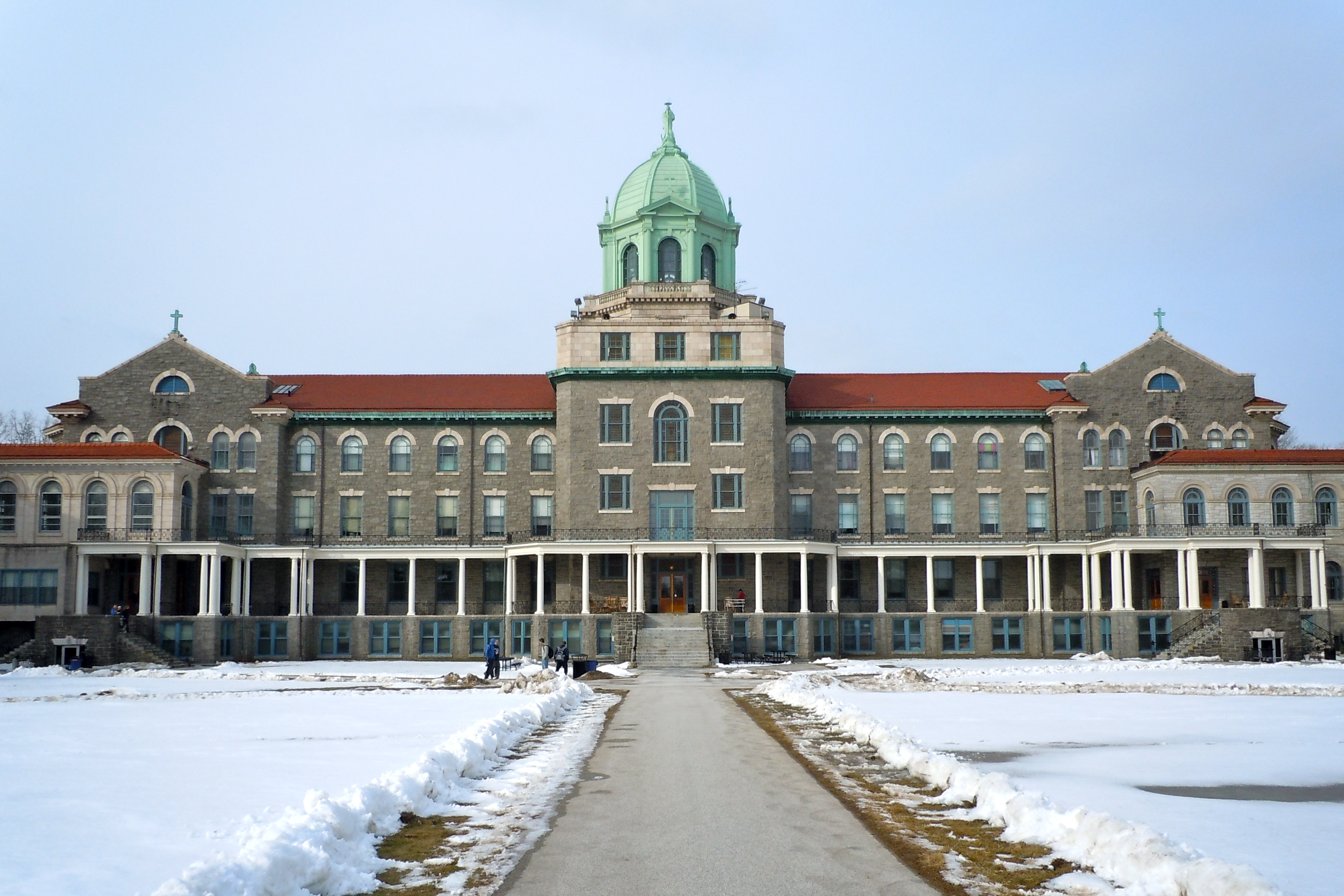 Main building at Immaculata University, formerly an all women's Catholic College, now a co-ed catholic university. Near Malvern, Pennsylvania